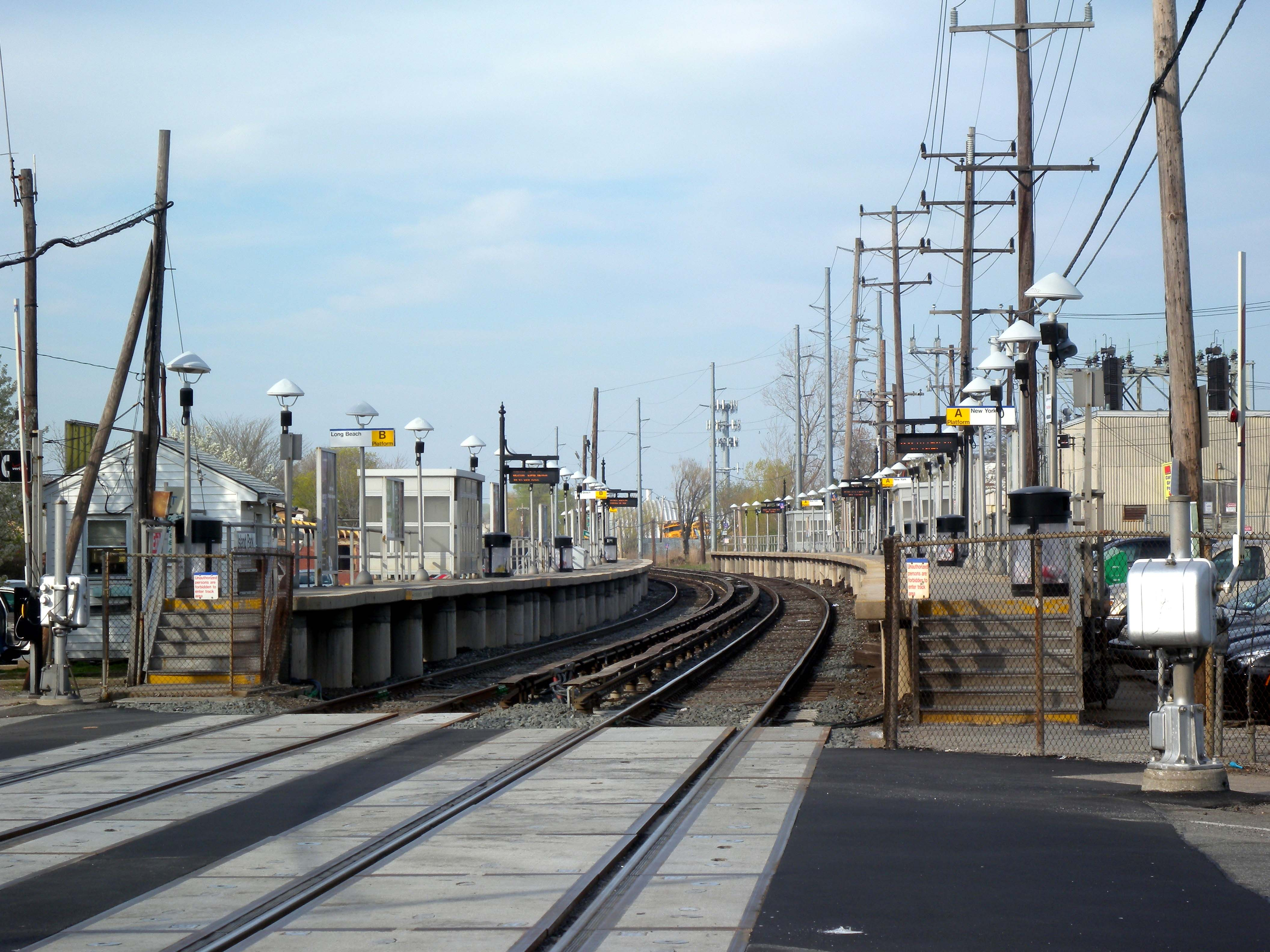 Looking northeast, full zoom, across Long Beach road at Island Park station of LIRR on a partly sunny afternoon.